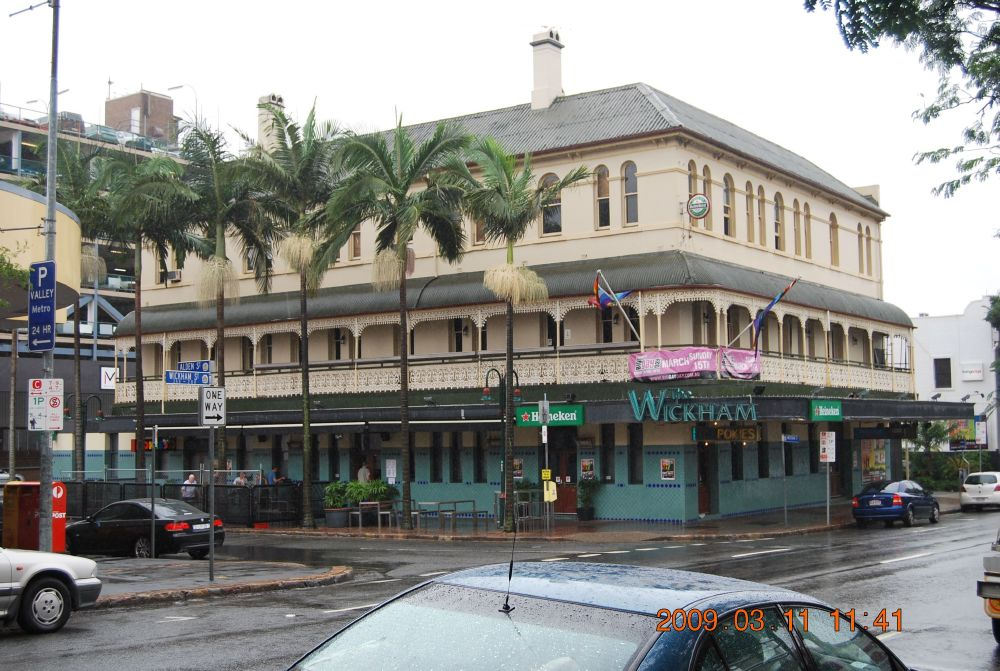 Wickham Hotel from South (2009)